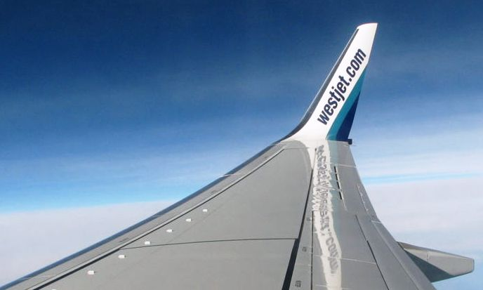 Interior of WestJet Boeing 737-700 winglet, showing livery